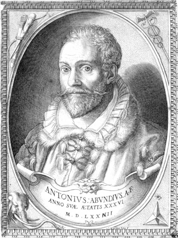 Antonio Abondio the Younger (1538-1591)